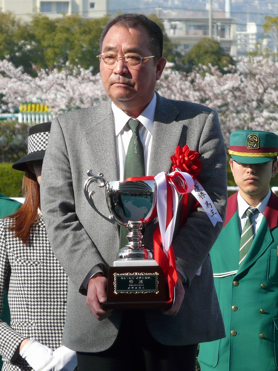 Masatsugu-Takezono20100404